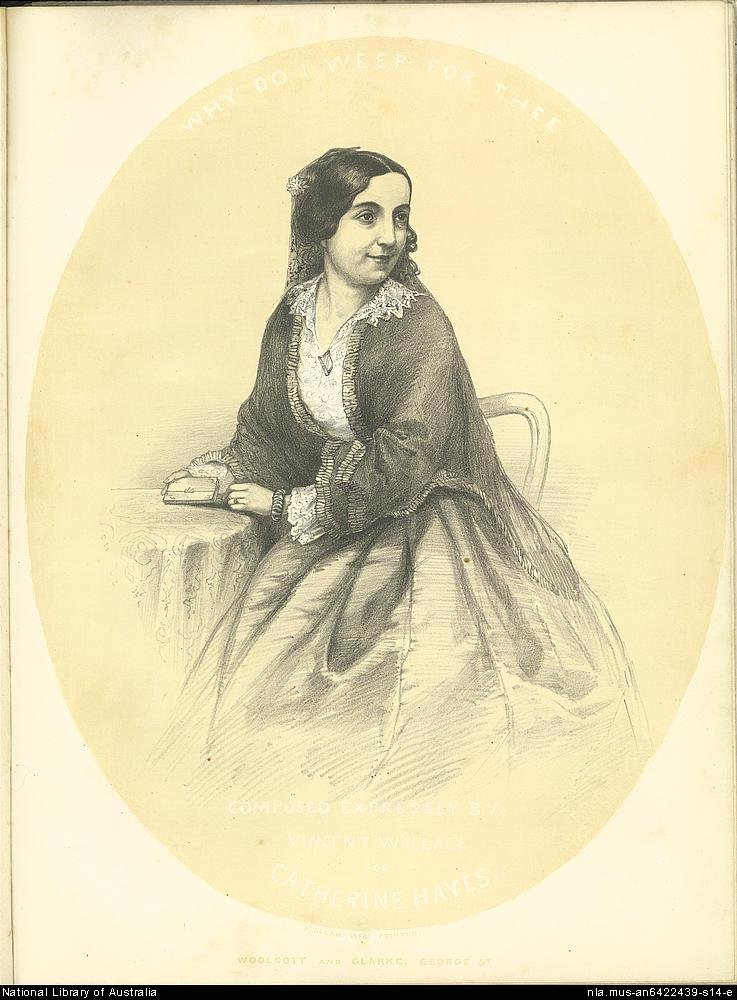 Catherine Hayes, Irish opera singer